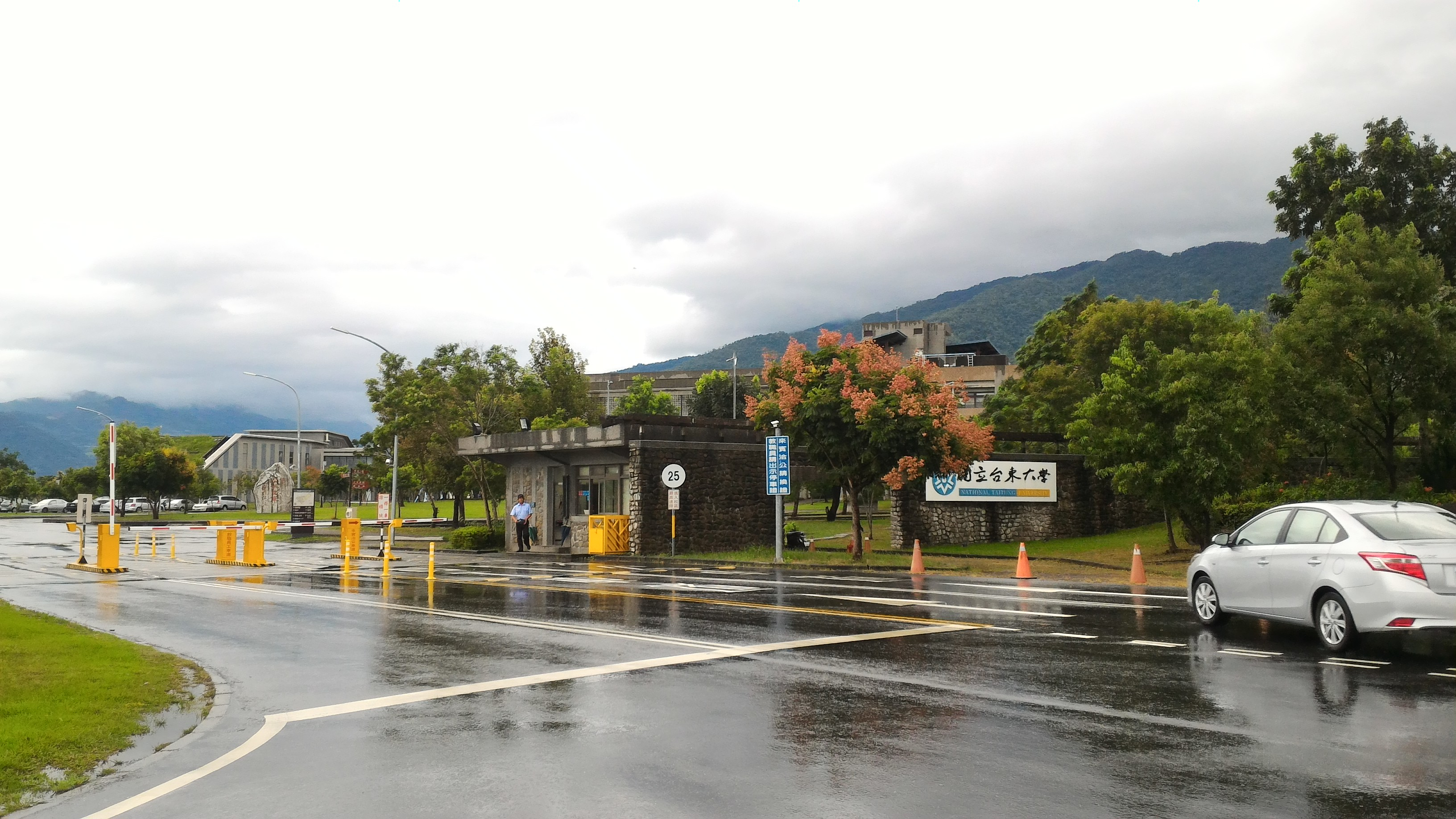 Taitung University entrance.